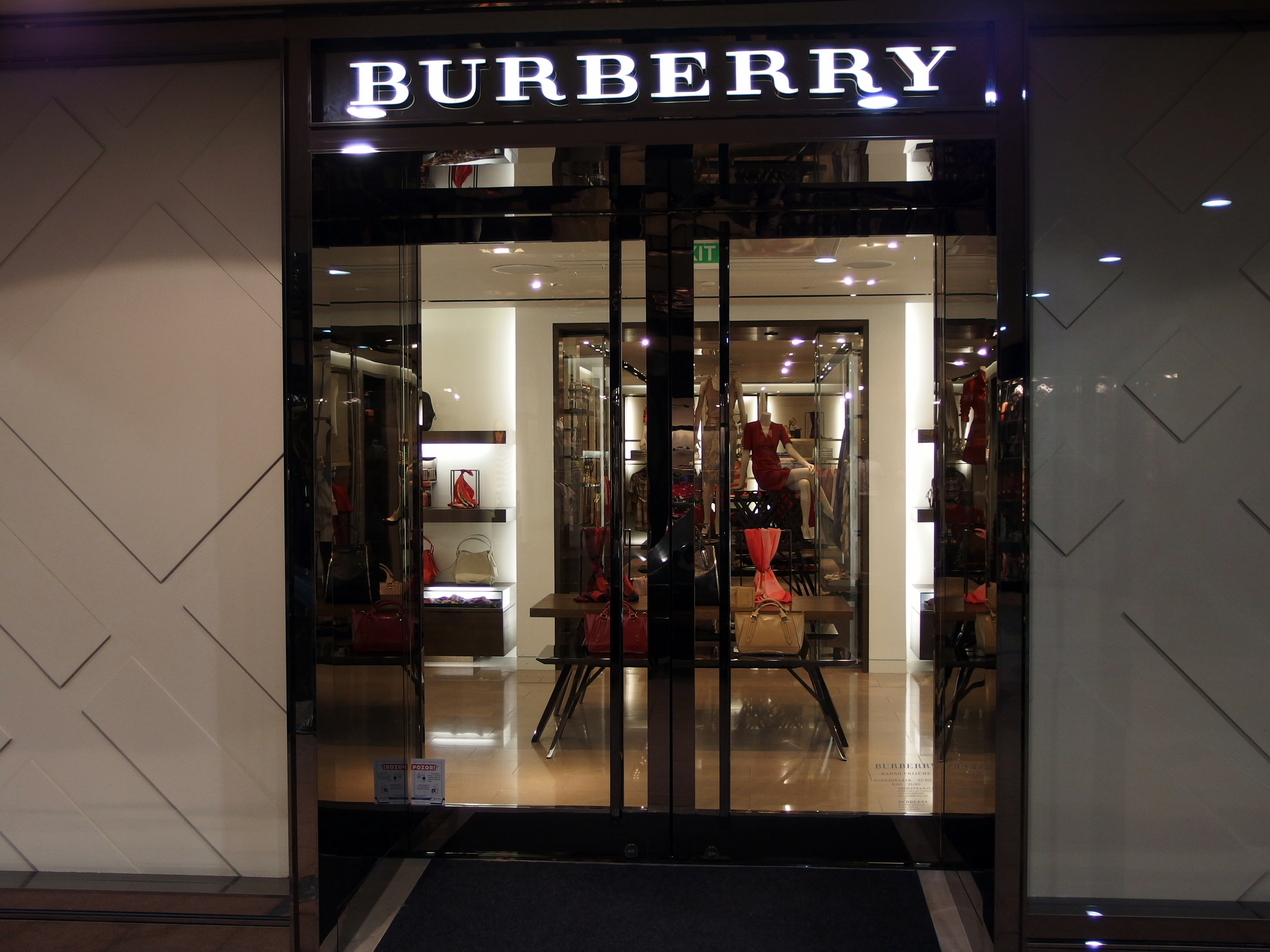 2013-06-10 in Zagreb.